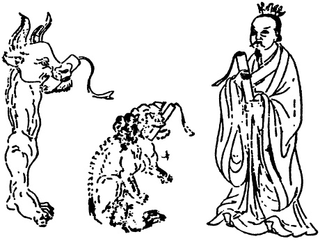 "Sanshi" (三尸, legendary creatures in China) from the Taijōjo-sanshichū-hoseikyō (太上除三尸九虫保生経, Chinese picture)